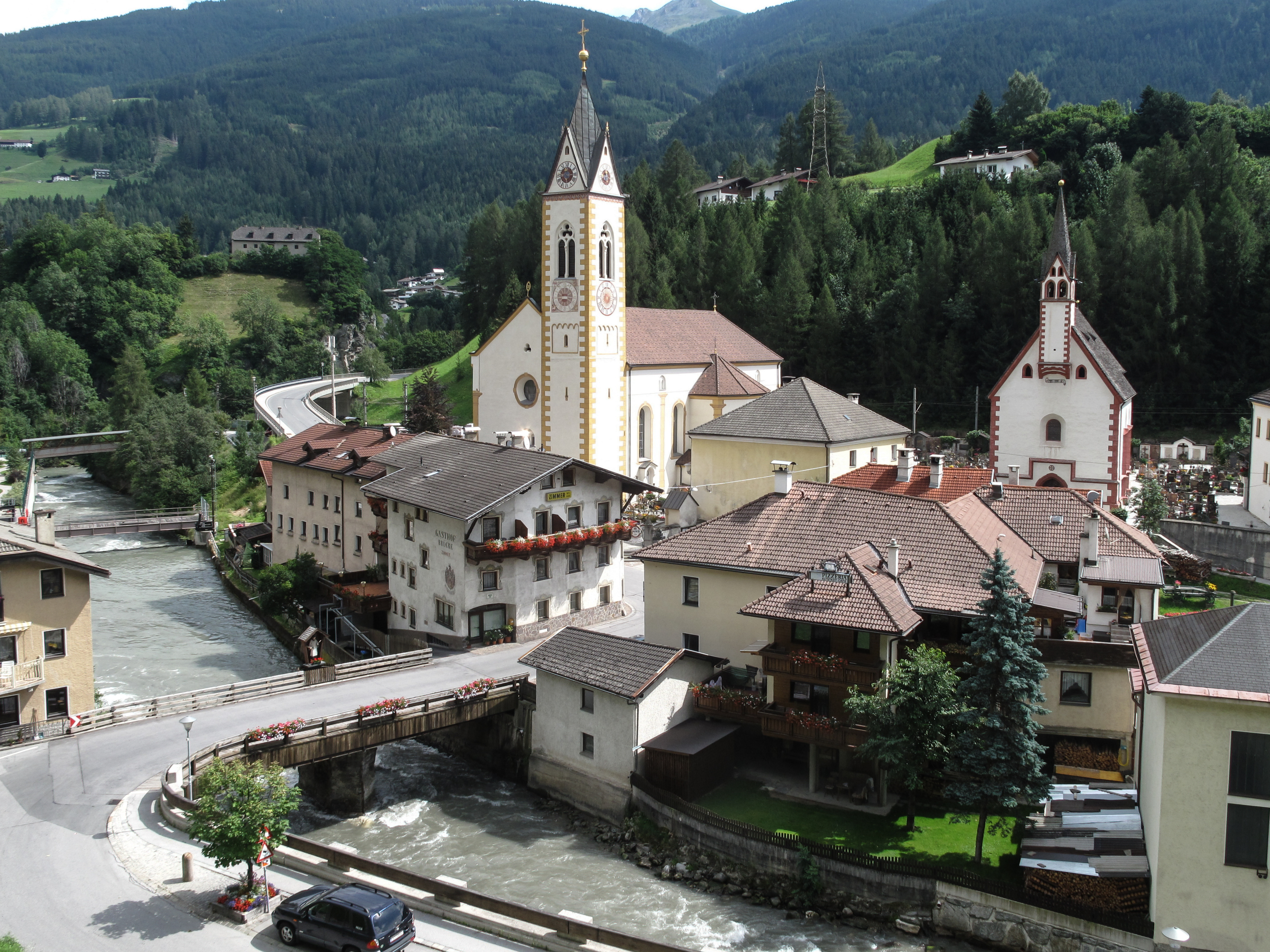 Mühlbachl, view to a village